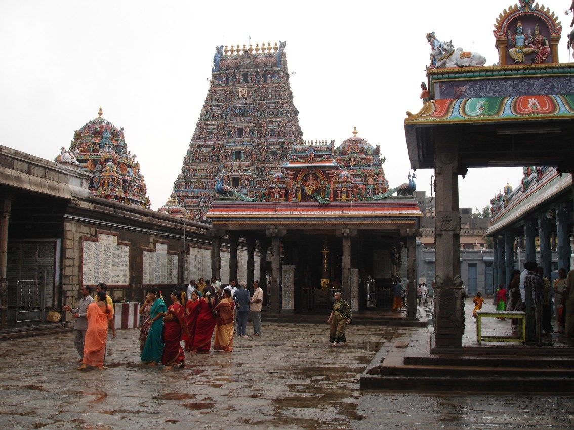 Chennai.in Mylapore Kapaleeswarar